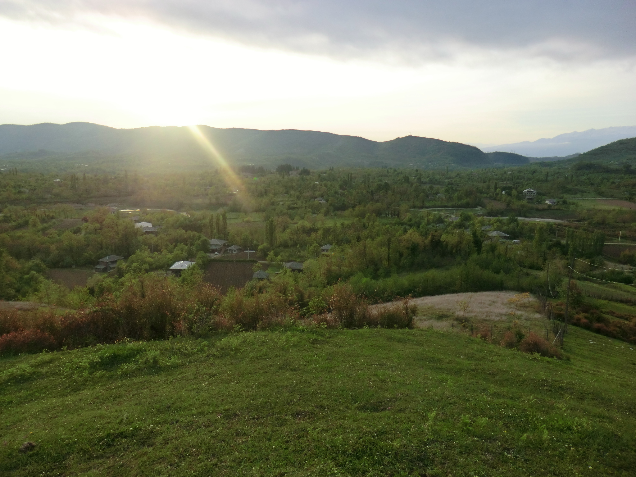 view to some houses in Martwili